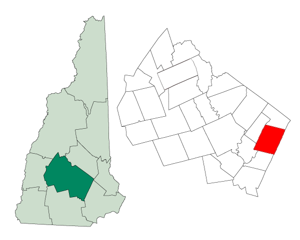 Map of a municipality in Merrimack County, New Hampshire